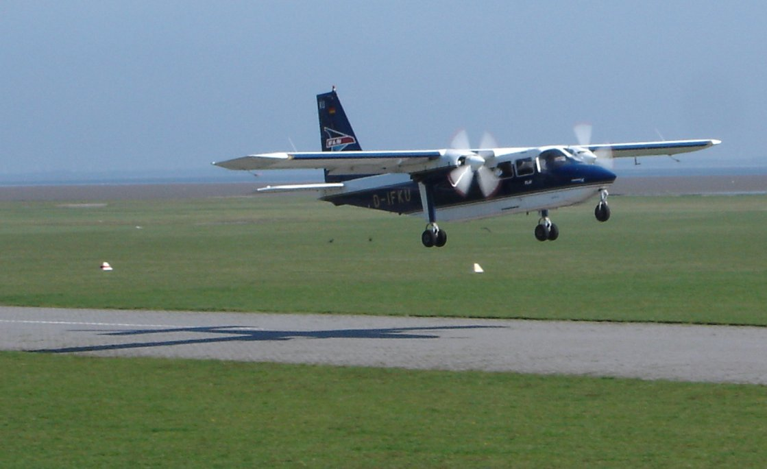 A Britten-Norman BN-2 Islander (Callsign D-IFKU) of the Airline FLN shortly after taking off at Juist airport.